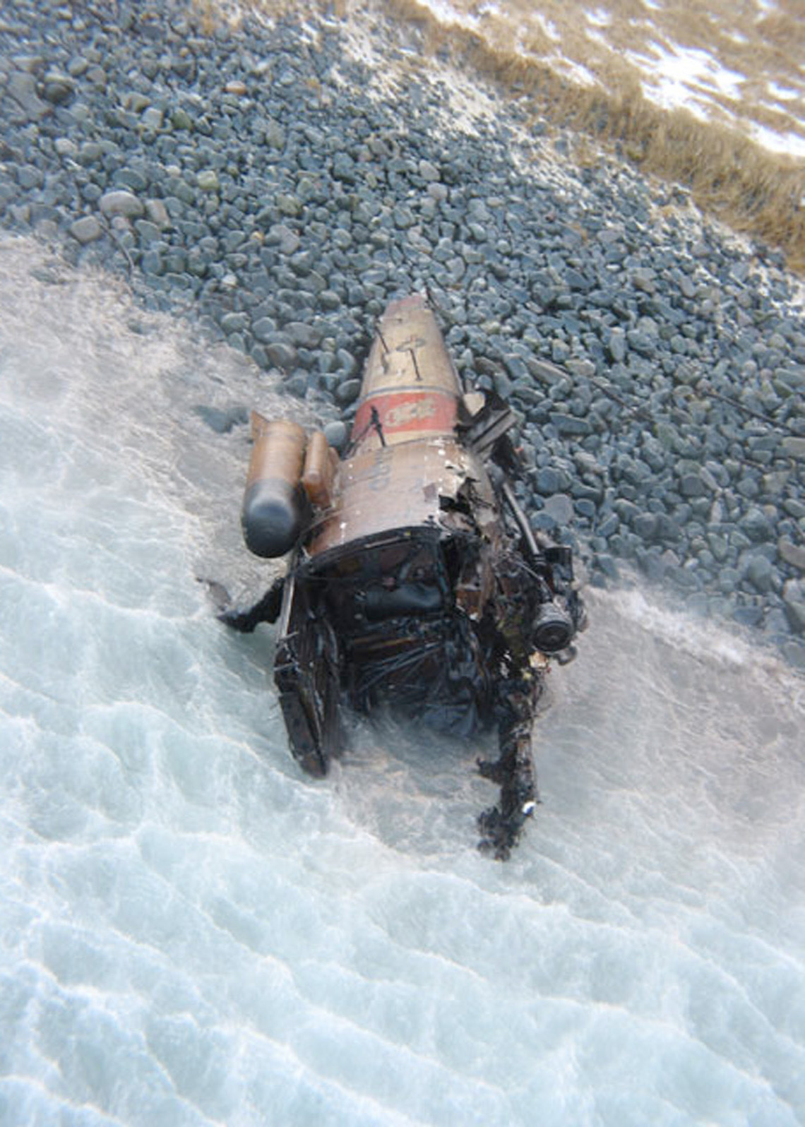 ANCHORAGE, Alaska (Dec. 8, 2004) The wreckage of an Air Station Kodiak rescue helicopter is washed ashore near Skan Bay, Alaska after crashing today during a rescue attempt which involved the 738-foot vessel Selendang Ayu near Unalaska Island. All Coast Guard crewmembers aboard the aircraft were rescued by another Coast Guard rescue helicopter. USCG photo.